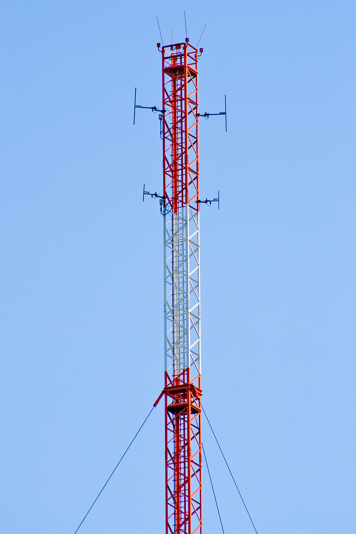 Dipole antennas at the 113 metres high transmitting mast Dannenberg-Pisselberg in the district Luechow-Dannenberg in Lower Saxony, Germany.